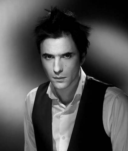 Samuel Benchetrit photographed by Studio Harcourt Paris